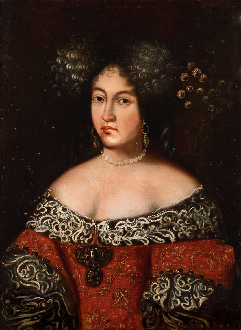 Maria Francisca of Savoy, queen of Portugal